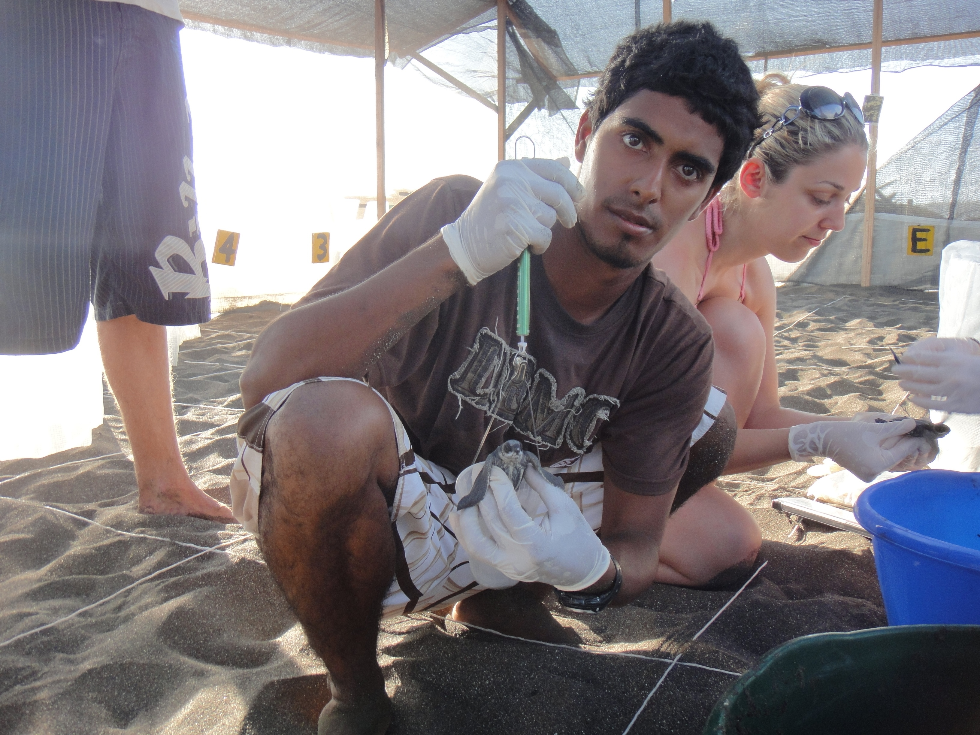 Environmentalist Jairo Mora Sandoval in the hatchery of the Ostional beach Leatherback and Pacific Green Sea Turtle Project, another project he worked for, with fellow volunteers